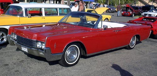 1960s Lincoln Continental Convertible. Photo by Morven at the Lake Forest, California weekly car show on April 20, en:2004.